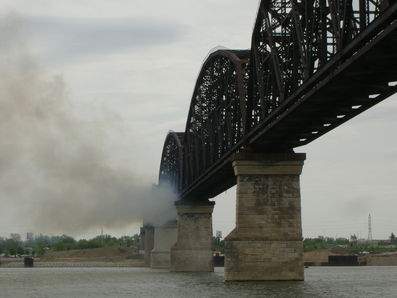 Image of the Big Four Bridge on fire on May 7, 2008.